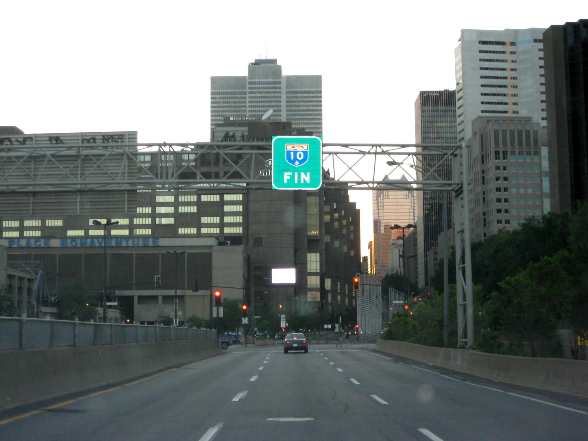 End of Autoroute 10 West (Bonaventure Expressway) in Montreal.